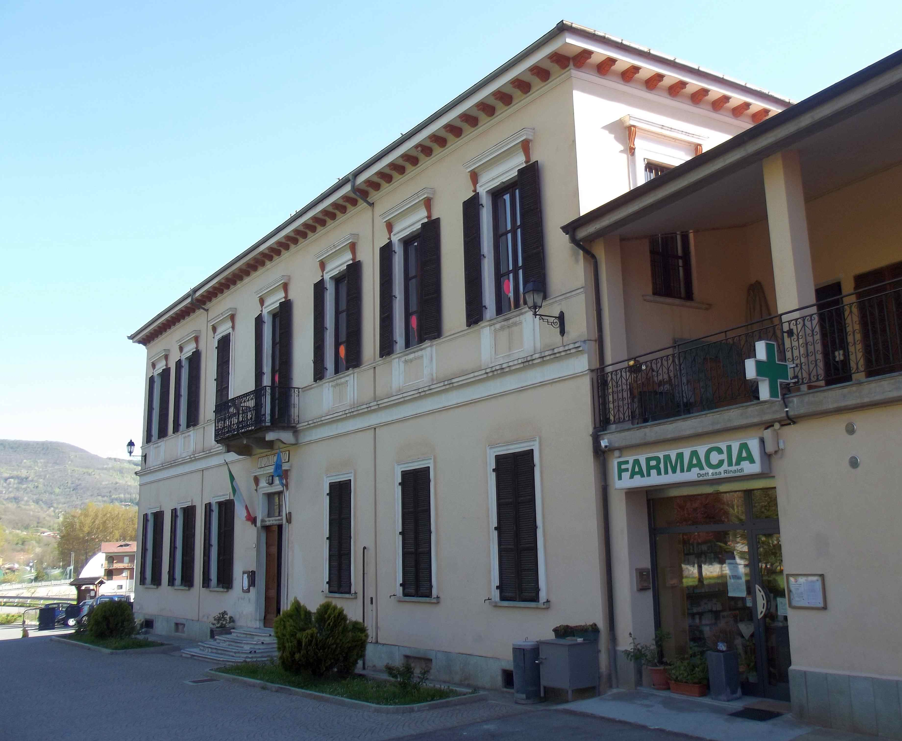 Priola (CN, Italy): town hall